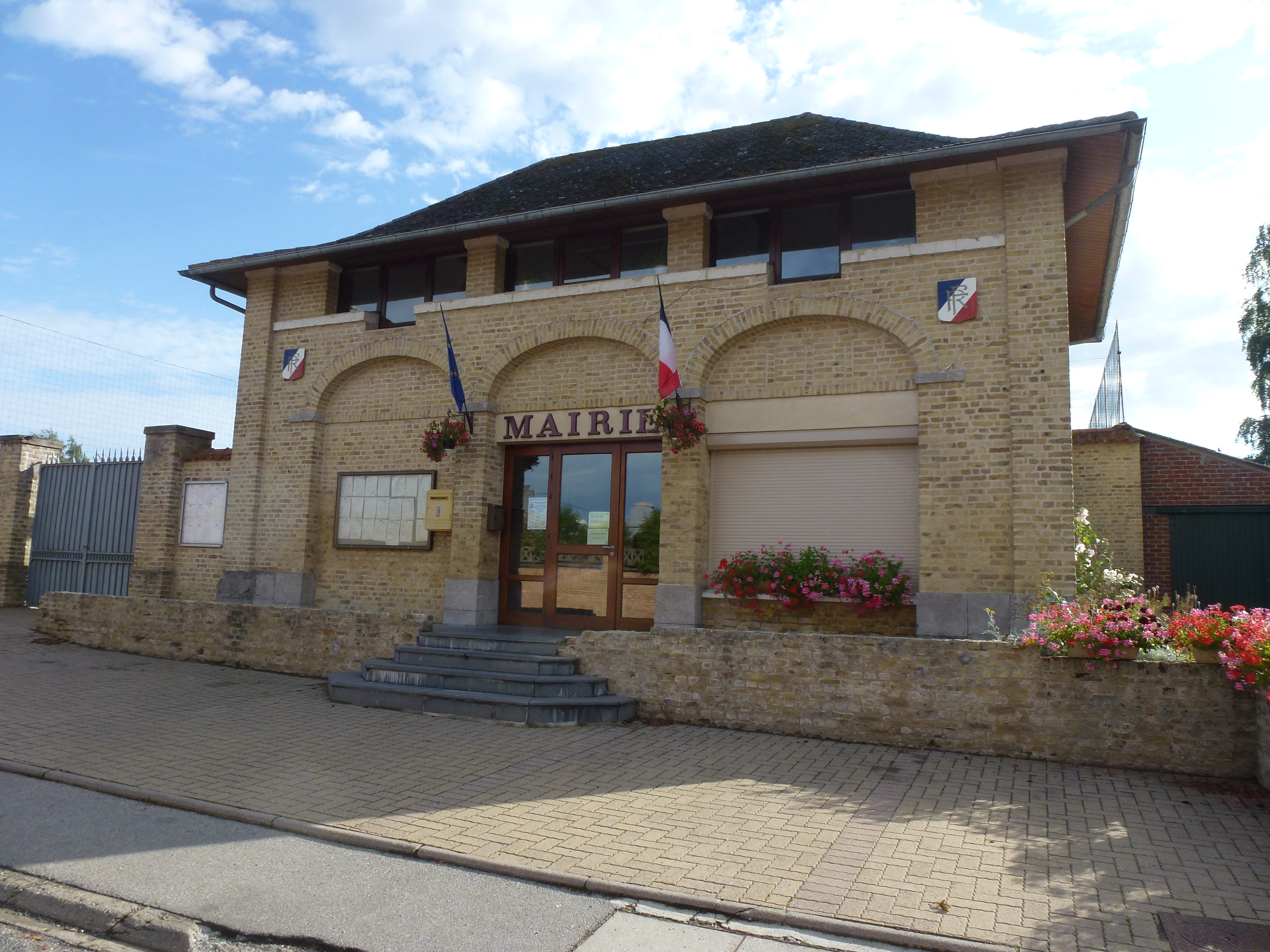 Louches (Pas-de-Calais) mairie